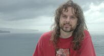 David Chalmers.Philosopher of mind